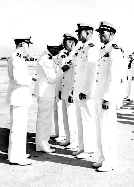 Lieutenant Commander R.M. "Butch" Voris prepares to receive his 11th Air Medal. This image is the work of an employee of the United States Navy made during the course of his/her duties and can be found at and elsewhere.